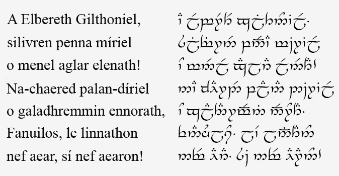 A Elbereth Gilthoniel written in tengwar script.